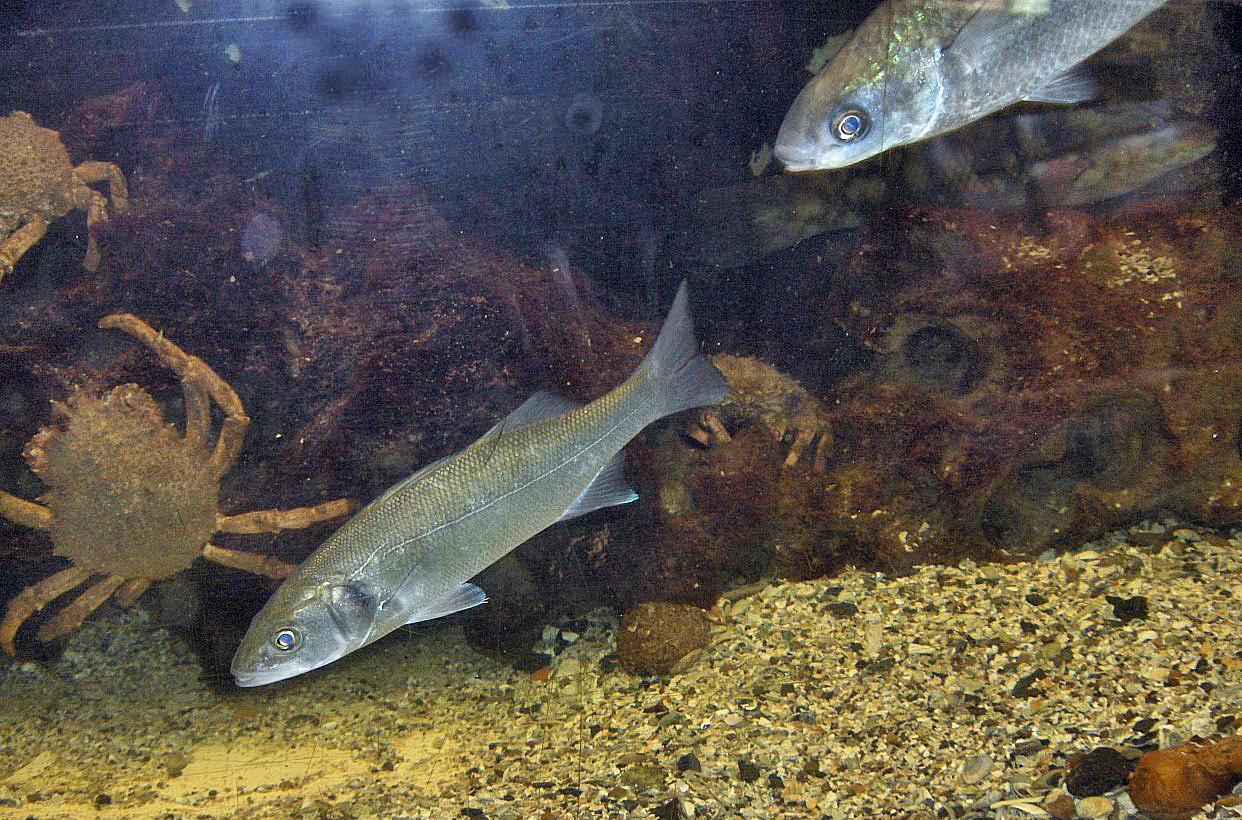 Dicentrarchus labrax (European seabass); upper right corner : Chelon labrosus (thick-lipped mullet); European spider crab (Maja brachydactyla)